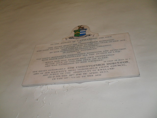 Memorials within St Benet Paul's Wharf (10), Catherine (1830) and Christopher Robinson (1833)